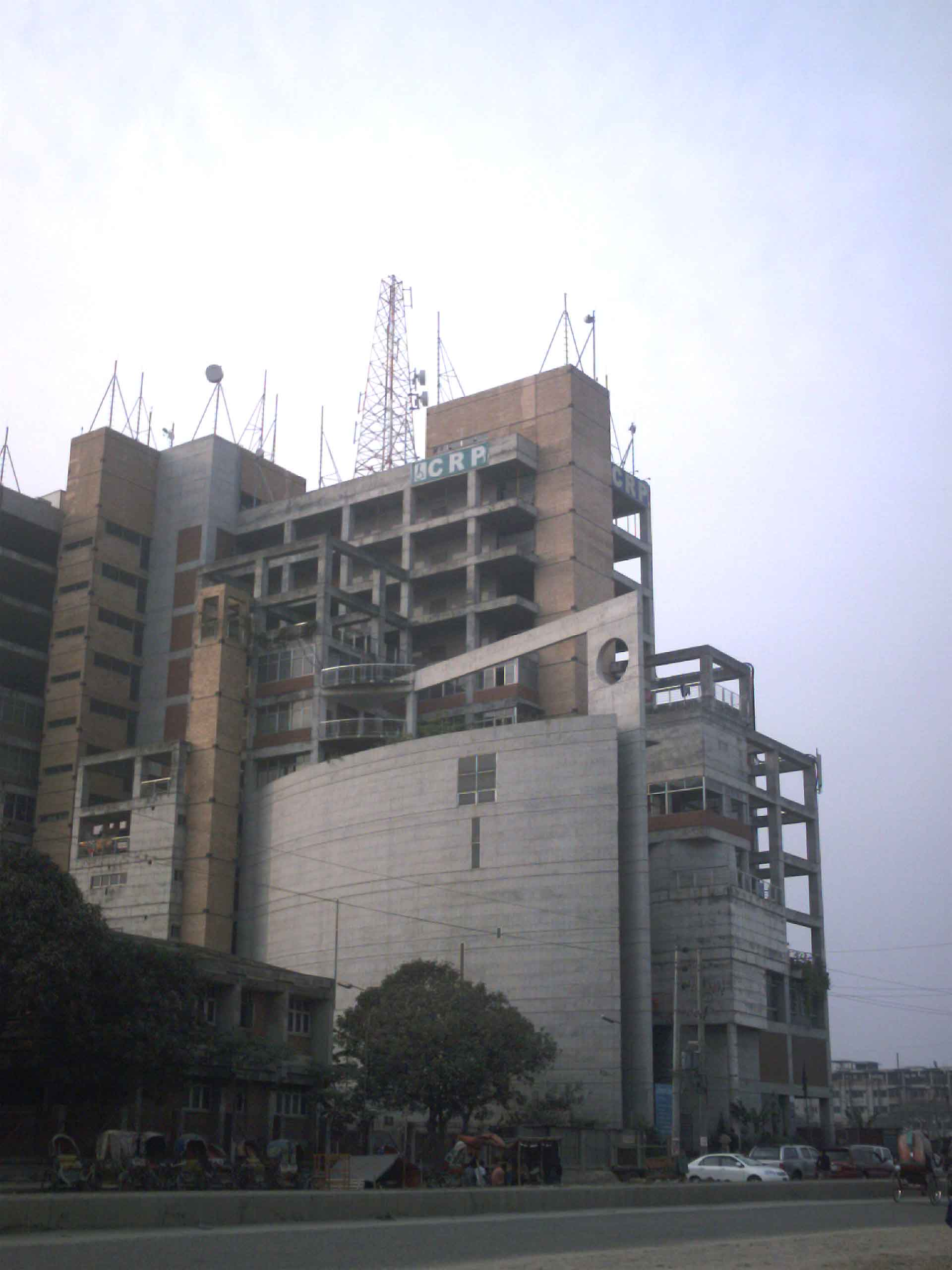 Center for Rehabilitation of Paralyzed (CRP). Mirpur - Branch. Bangladesh.